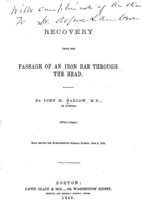 John Martyn Harlow, "Recovery from the passage of an iron bar through the head" (1868), p2 (inner title pg) showing presentation inscription, rotated right 0.47deg to correct tilt, and cropped.